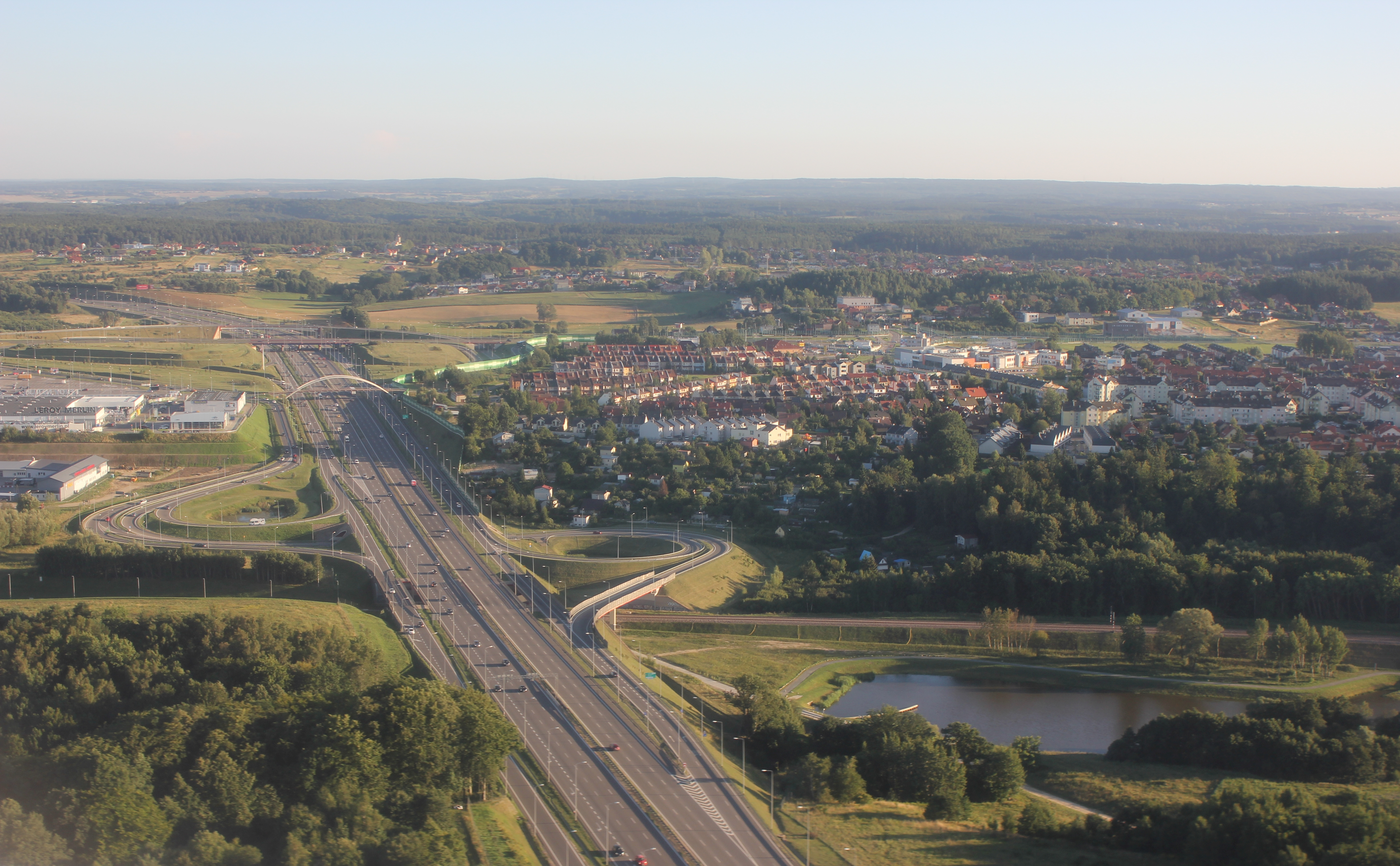 Gdańsk - Trójmiasto bypass (S6 expressway) - Karczemki